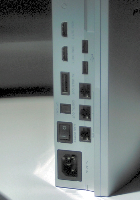 PlayStation 3 prototype output details, shot at the E3 2005.